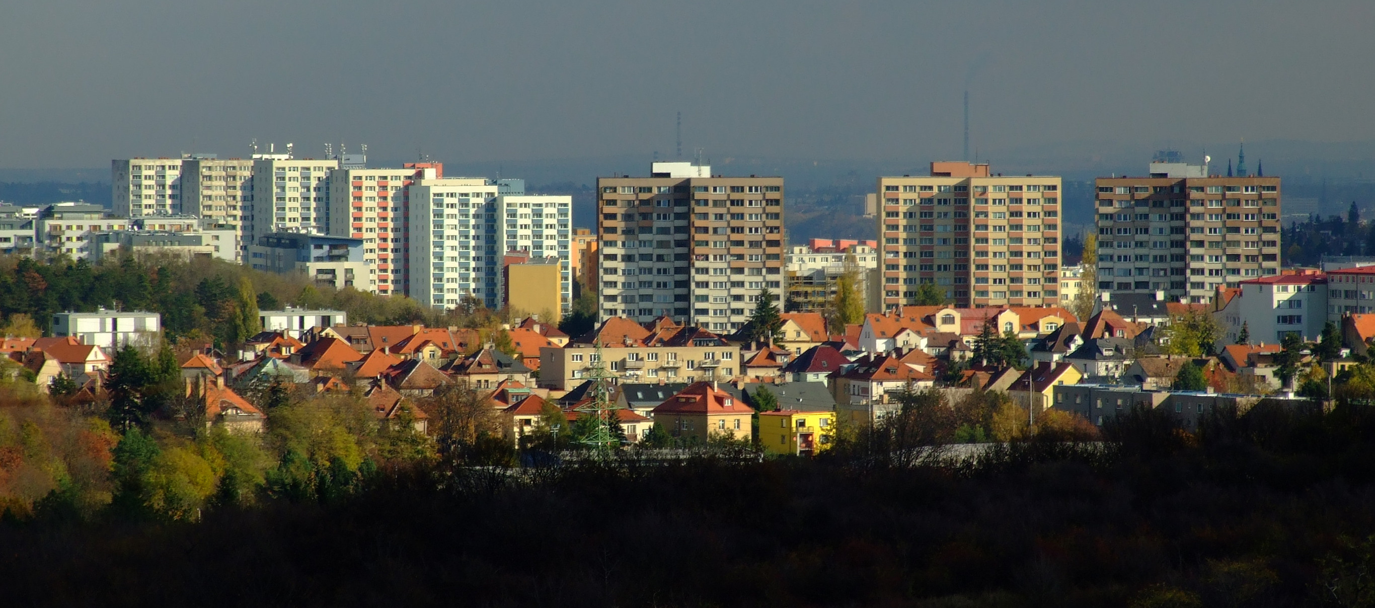 View of Červený Vrch from Divoká Šárka area in Prague, Czhelp